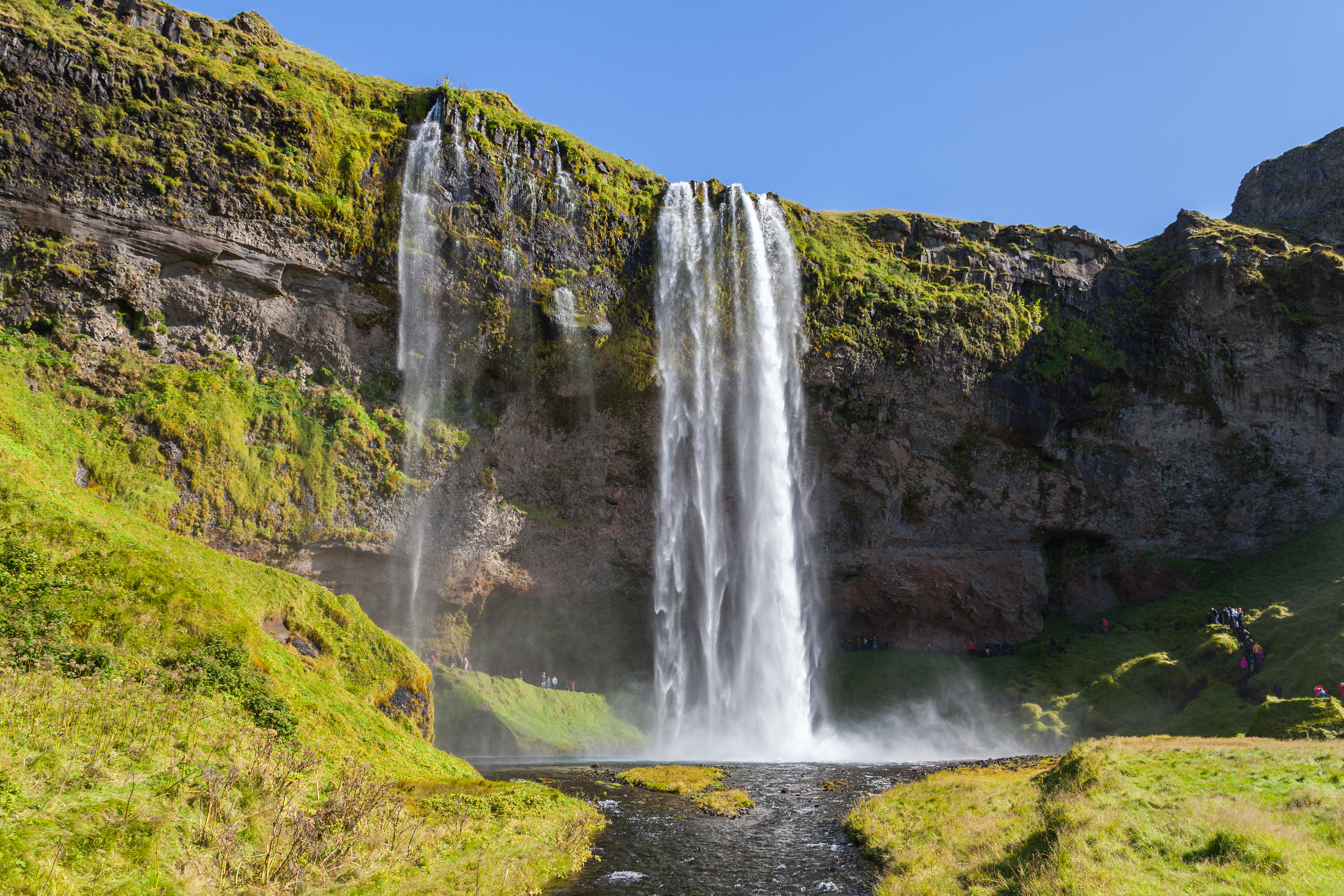 Seljalandsfoss, Suðurland, Iceland